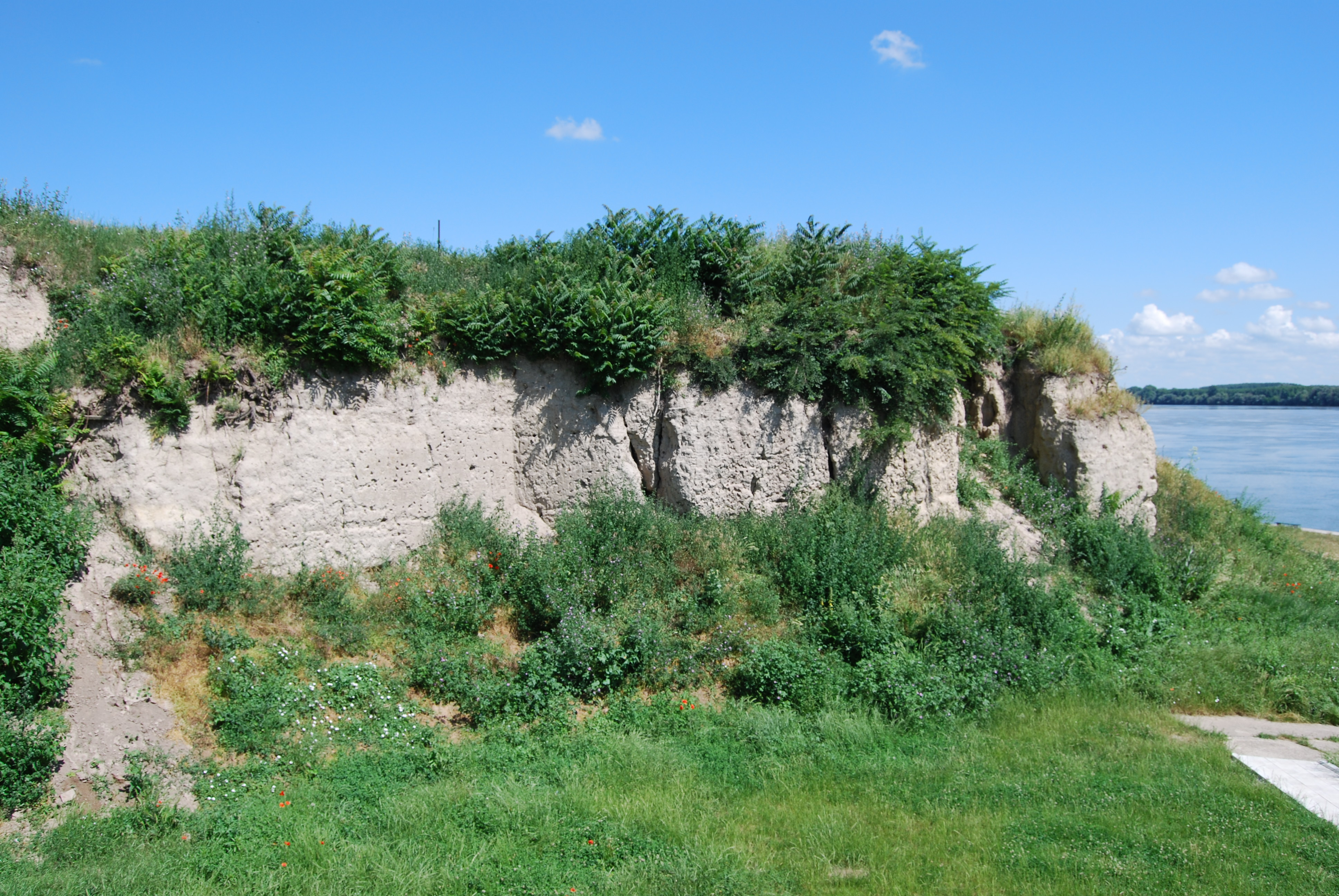 Photography of profile, White Hill in Vinča